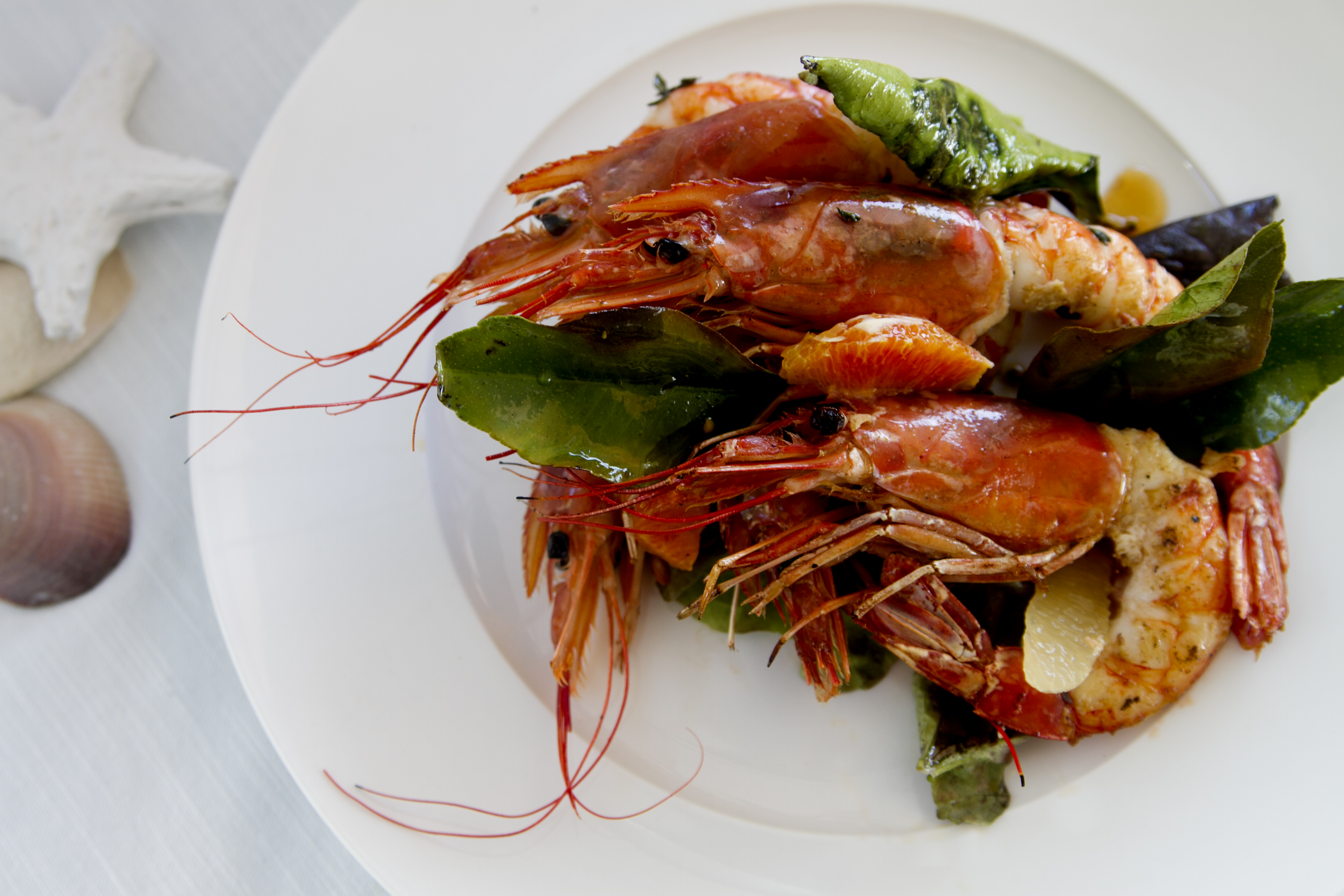 Food photography; Seafood; Dendrobranchiata